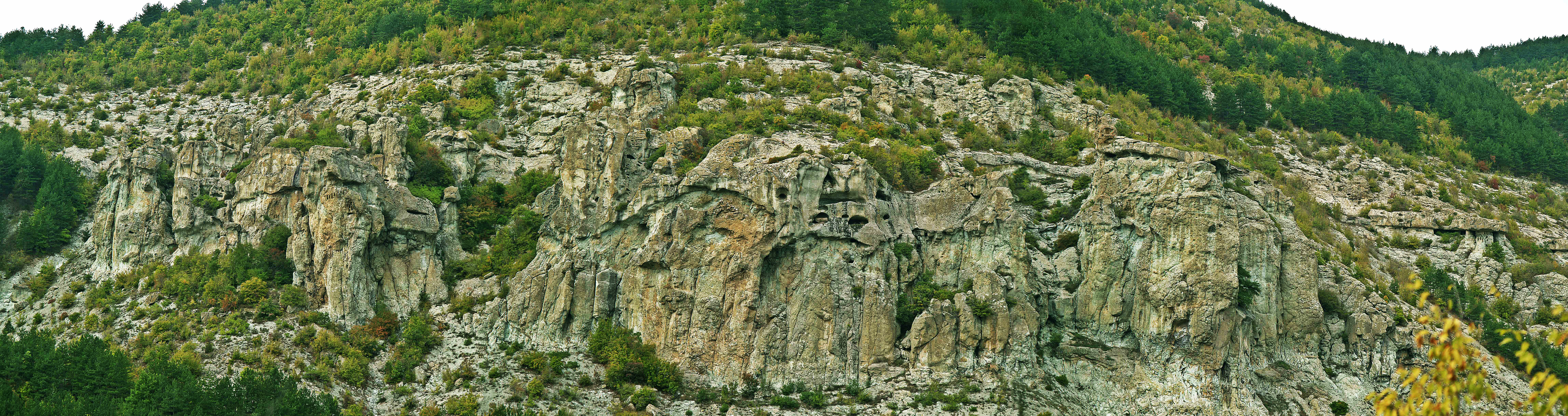 Dazhdovnica pre historic shrine ERodopi BG